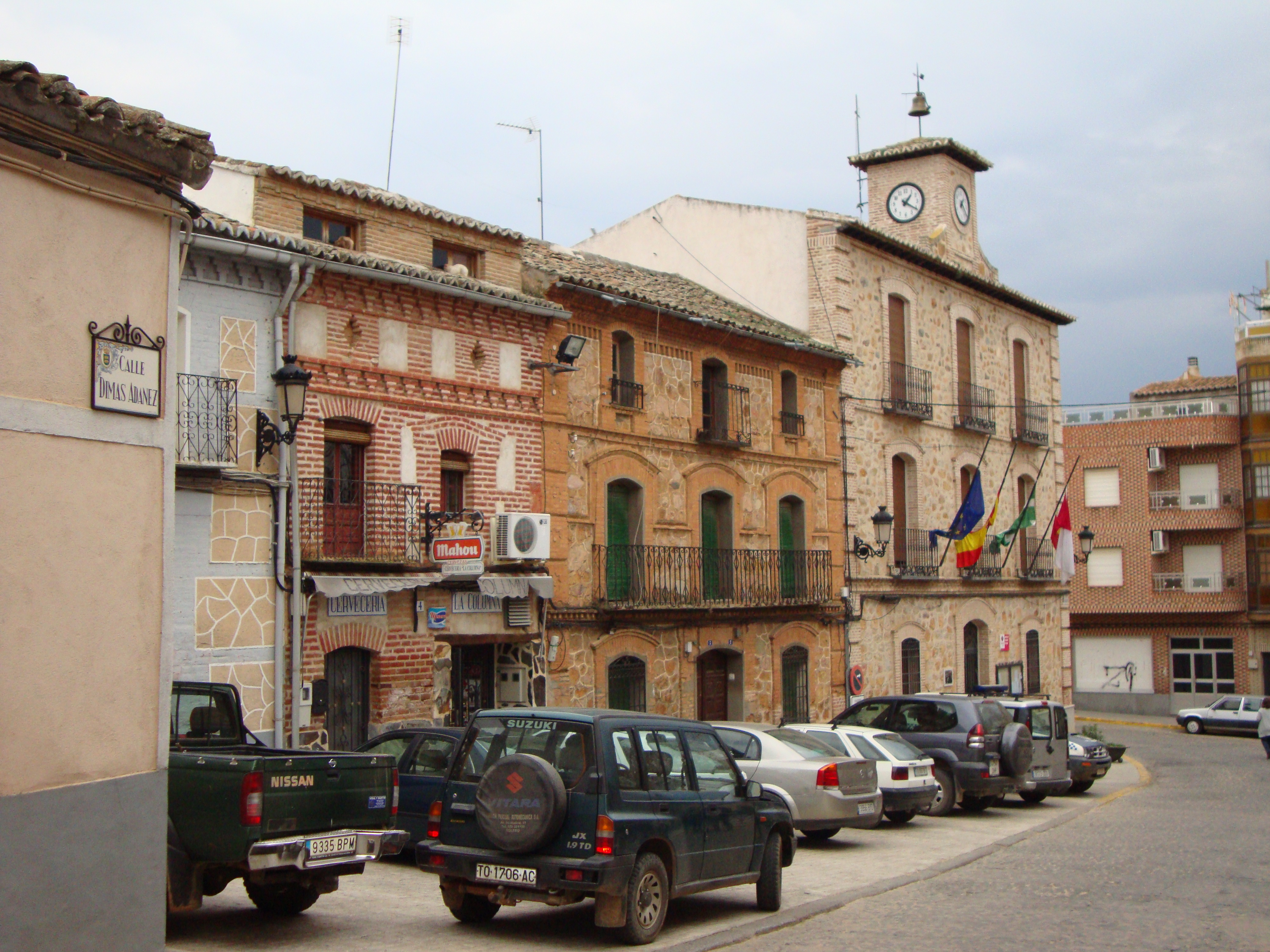 Navalucillos, Spanish town in the Talavera´s Lands.